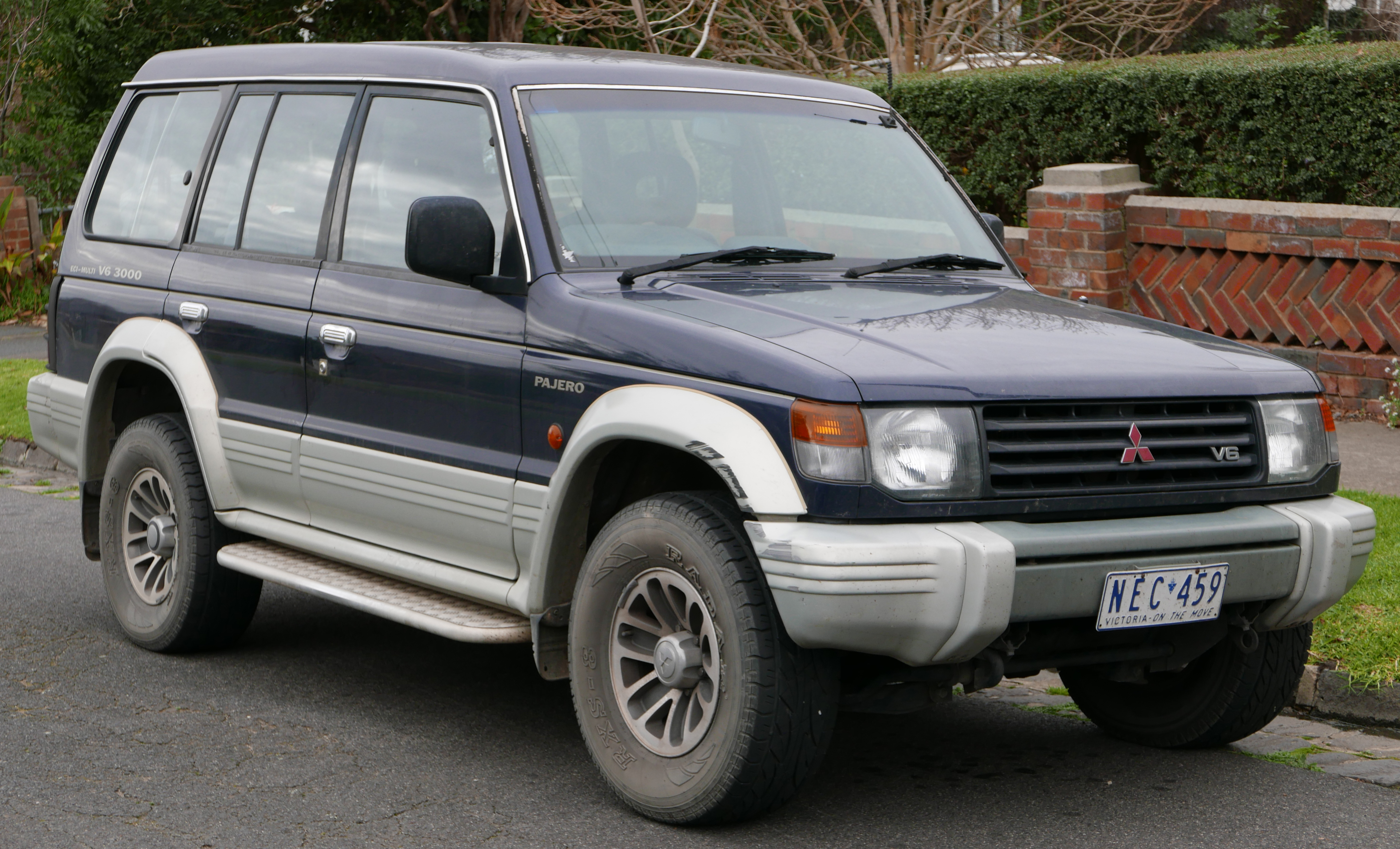 1994 Mitsubishi Pajero (NJ) GLS wagon. Photographed in Kew, Victoria, Australia. Vehicle registration enquiry results Jurisdiction Victoria Registration NEC459 Chassis code JMFNJ6Z45RJ009467 Engine code 6G72K49579 Compliance date 1994-09 Year of manufacture 1995 (not a typo)